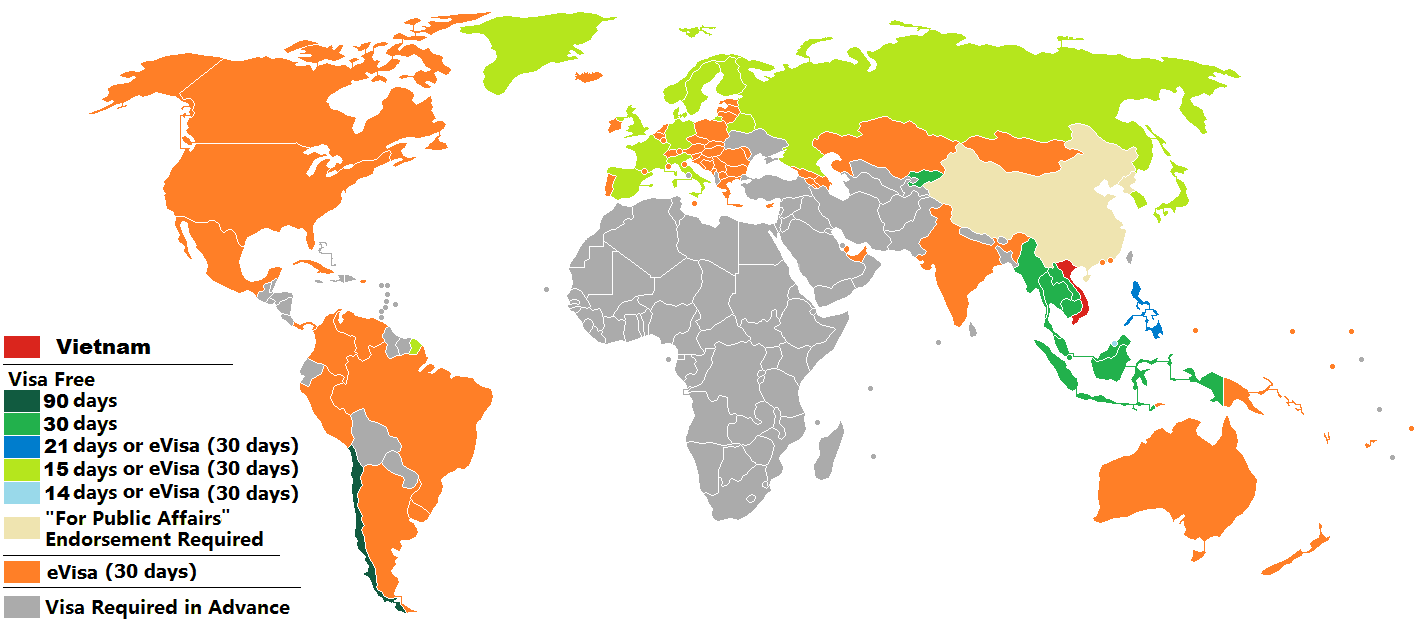 Visa policy of Vietnam Vietnam Visa-free - 90 days Visa-free - 30 days Visa-free - 21 days Visa-free - 15 days Visa-free - 14 days Visa-free for passports endorsed "for public affairs" eVisa Visa required in advanceTiếng Việt: Chính sách thị thực Việt Nam Việt Nam Miễn thị thực - 90 ngày Miễn thị thực - 30 ngày Miễn thị thực - 21 ngày Miễn thị thực - 15 ngày Miễn thị thực - 14 ngày Miễn thị thực cho hộ chiếu có "dành cho công vụ" Thị thực điện tử Cần xin thị thực